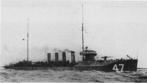 The U.S. Navy destroyer USS Aylwin (DD-47) underway, circa 1916-1917.